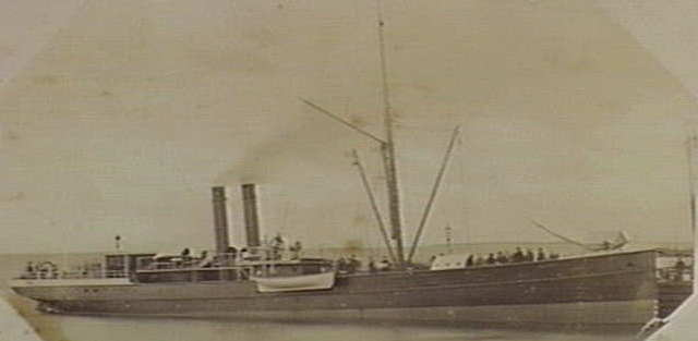 SS Alert: built in 1877 by Robert Duncan & Co of Port Glasgow, Scotland for Huddart Parker and wrecked off Jubilee Point, Victoria, Australia in 1893